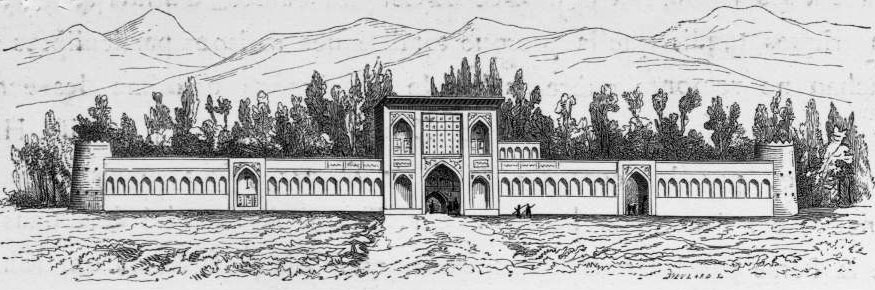 Kiosque Bagh Shah Fin